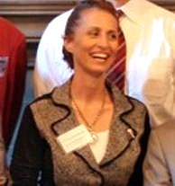 Sarah Thomson, publisher and CEO of the Women's Post magazine and a 2010 Toronto Mayoral candidate.